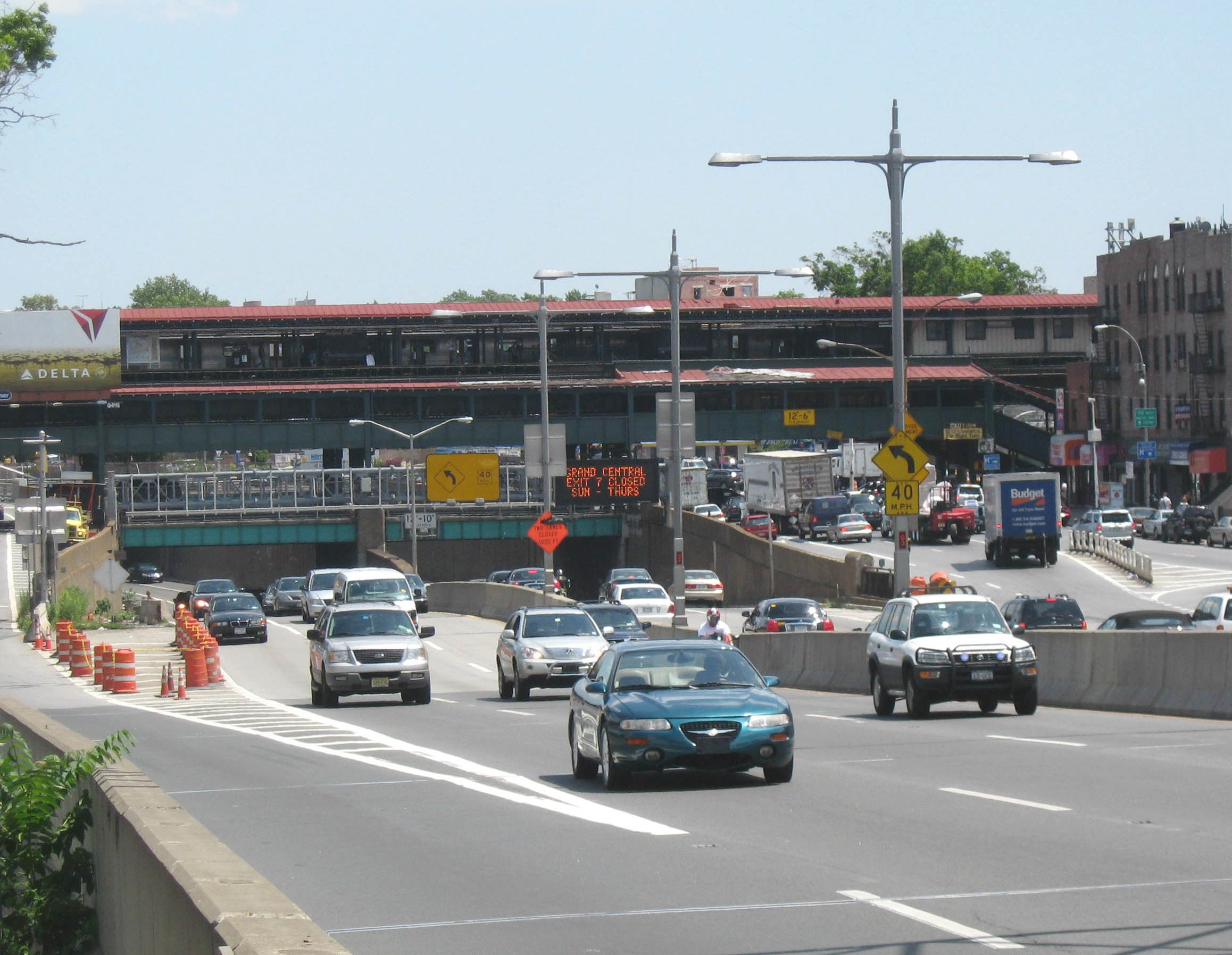 Looking east from footpath of Triboro Bridge at Grand Central Parkway north end and Astoria Boulevard (BMT Astoria Line) station on a sunny early afternoon